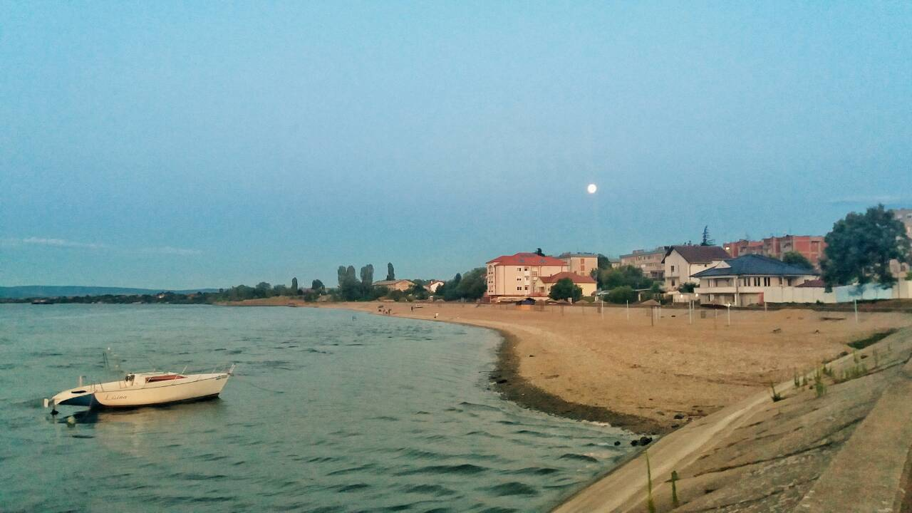 City beach in the Kladovo is one of the most beautiful in Serbia. It is 1 km. long.